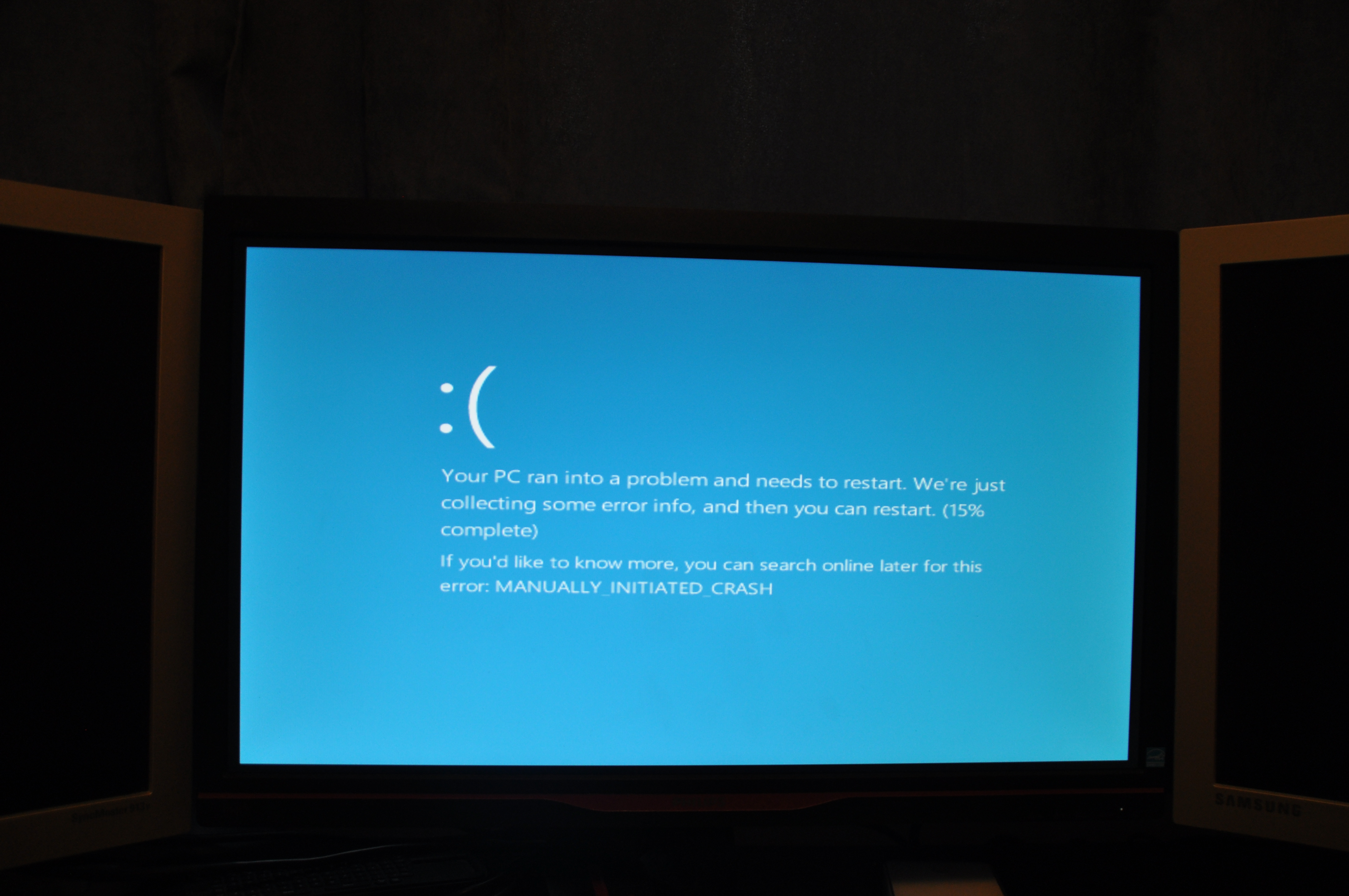 A blue screen of death caused by a manual crash.